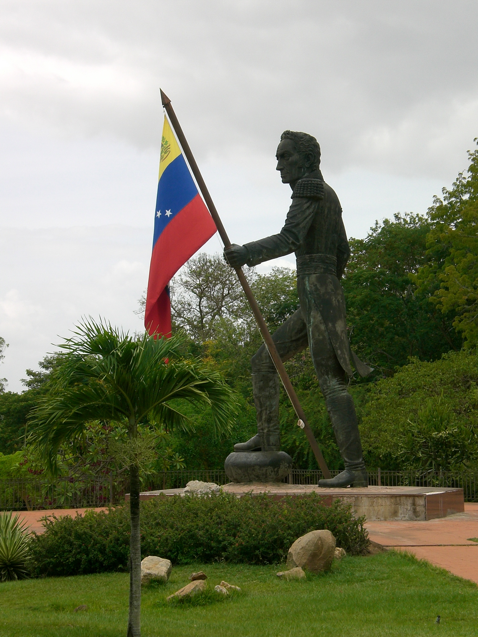 Statue in honor to Simón Bolívar, Ciudad Bolívar, Venezuela.